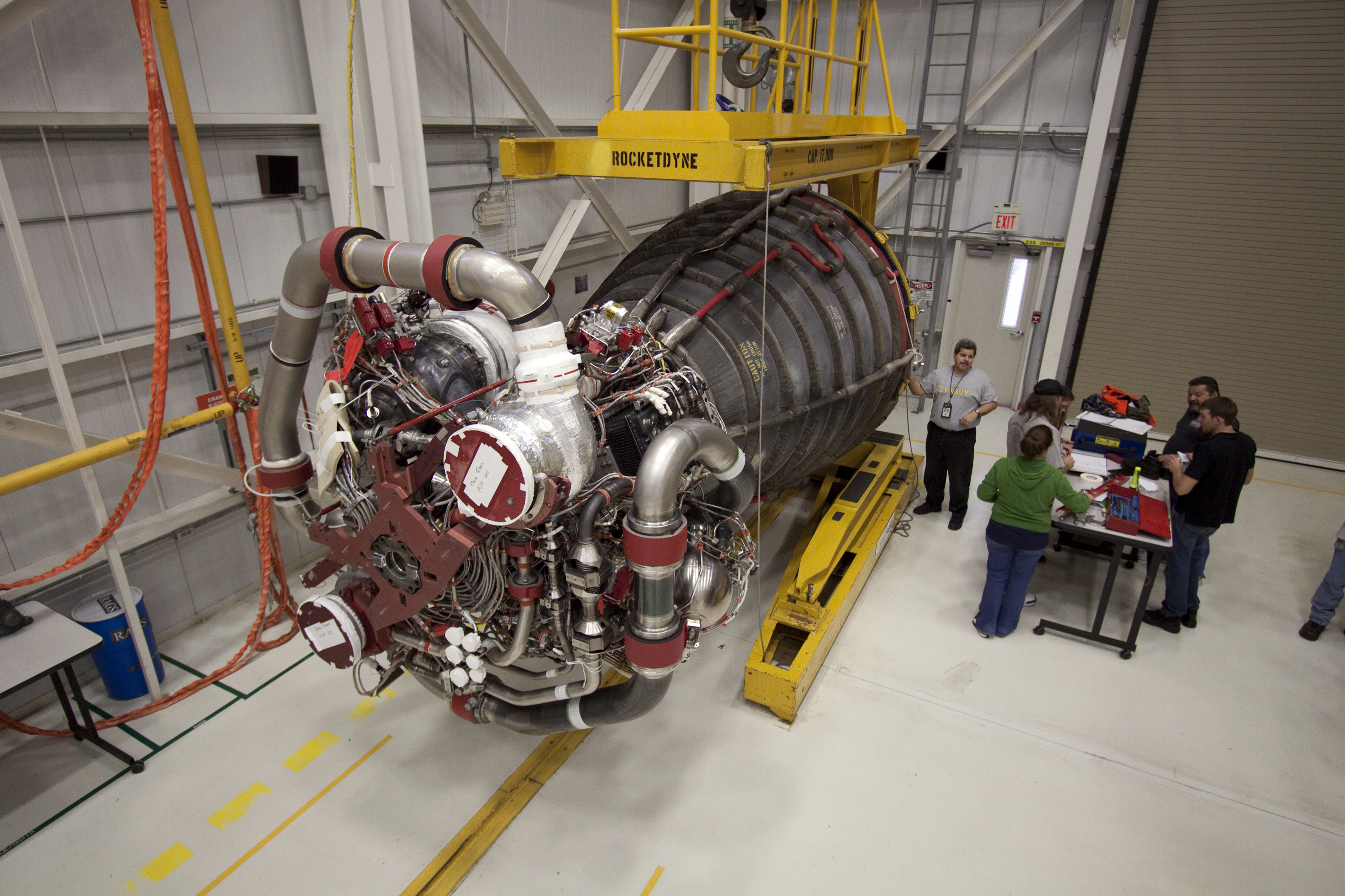 In the Space Shuttle Main Engine Processing Facility at NASA's Kennedy Space Center in Florida, a space shuttle main engine is lifted from its work stand toward a transporter for its move to Orbiter Processing Facility-1, the hangar in which space shuttle Atlantis is being processed for its upcoming STS-132 mission. A main engine is 14 feet long, weighs approximately 7,000 pounds, and is 7.5 feet in diameter at the end of the nozzle. Inspection and maintenance of each of the shuttle's three main engines are an important safety measure and standard procedure between shuttle missions. Atlantis is scheduled to deliver an Integrated Cargo Carrier and Russian-built Mini Research Module to the International Space Station on STS-132. The second in a series of new pressurized components for Russia, the module will be permanently attached to the Zarya module. Three spacewalks are planned to store spare components outside the station, including six spare batteries, a boom assembly for the Ku-band antenna and spares for the Canadian Dextre robotic arm extension. A radiator, airlock and European robotic arm for the Russian Multi-purpose Laboratory Module also are payloads on the flight.